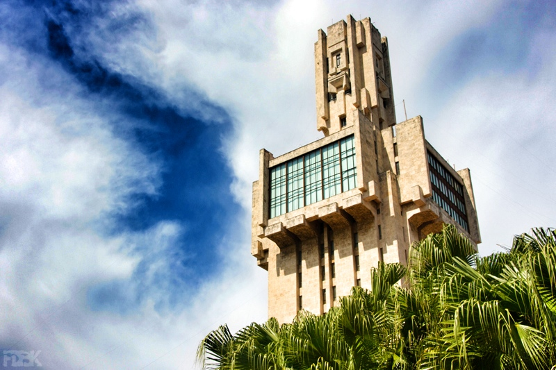 Russian Embassy in Miramar, Havana, Cuba (2011)